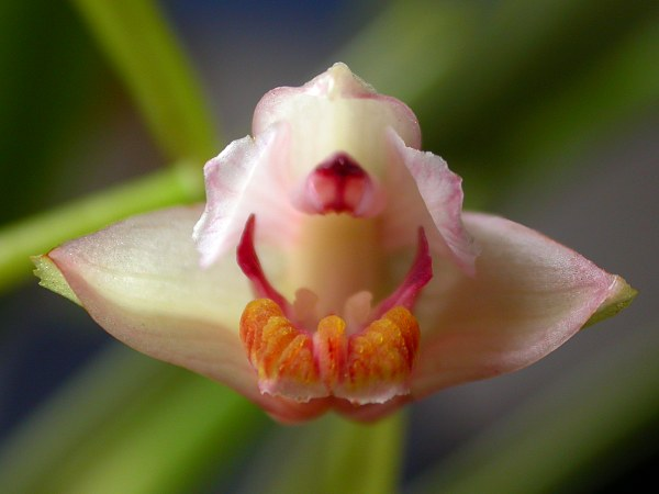 Eria